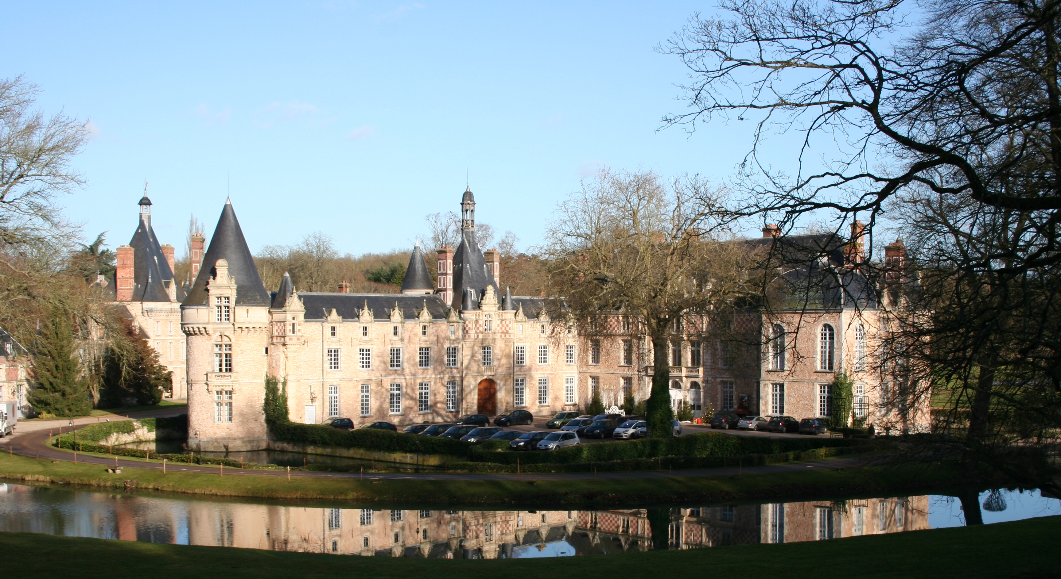 Castle of Esclimont.